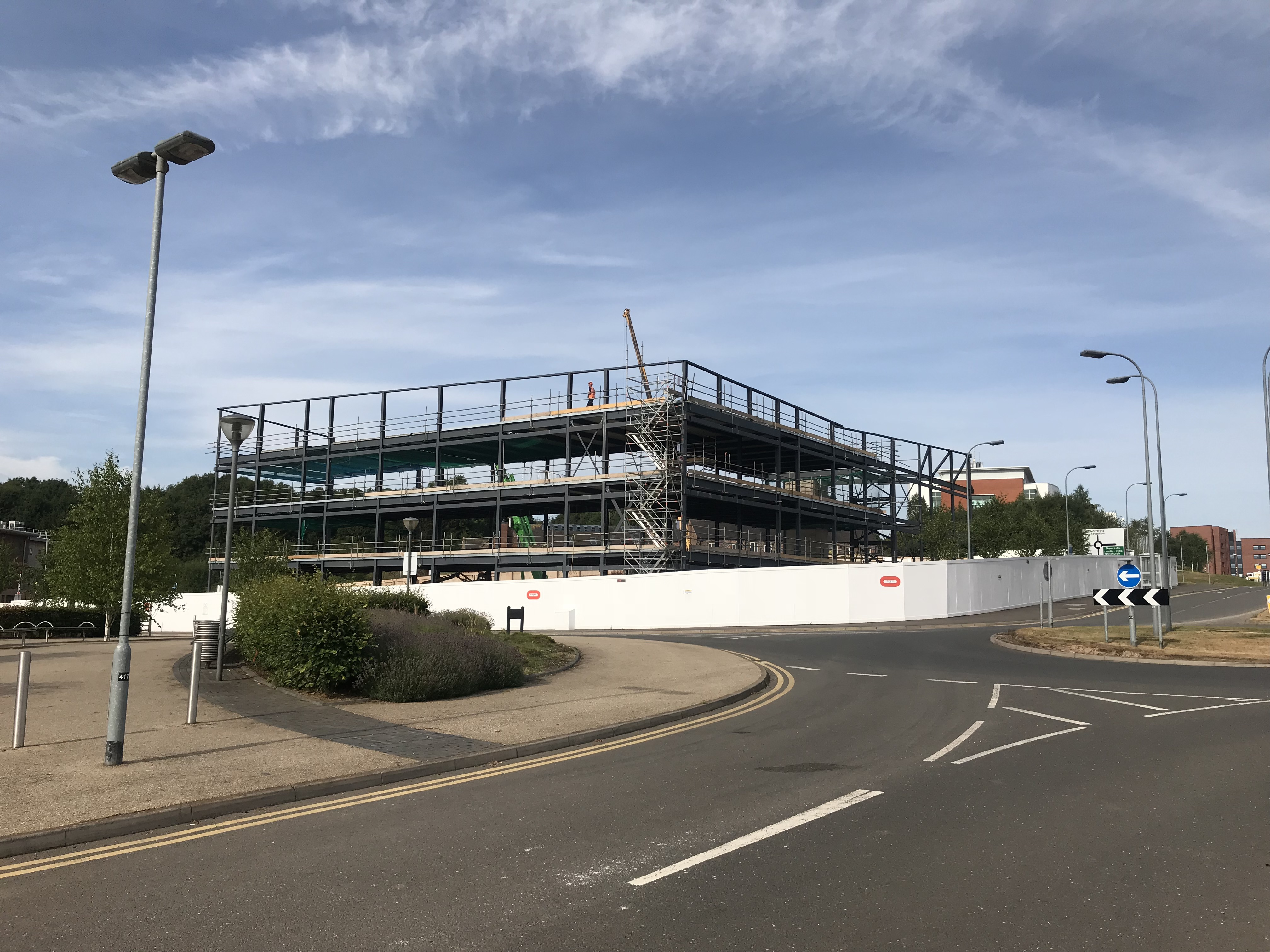 New building under construction at Keele University